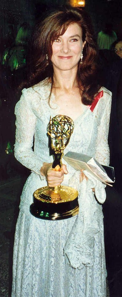 Valerie Mahaffey with Ken Lillig at the Governor's Ball after the 1992 Emmy Awards - Permission granted to copy, publish, broadcast or post but please credit "photo by Alan Light" if you can